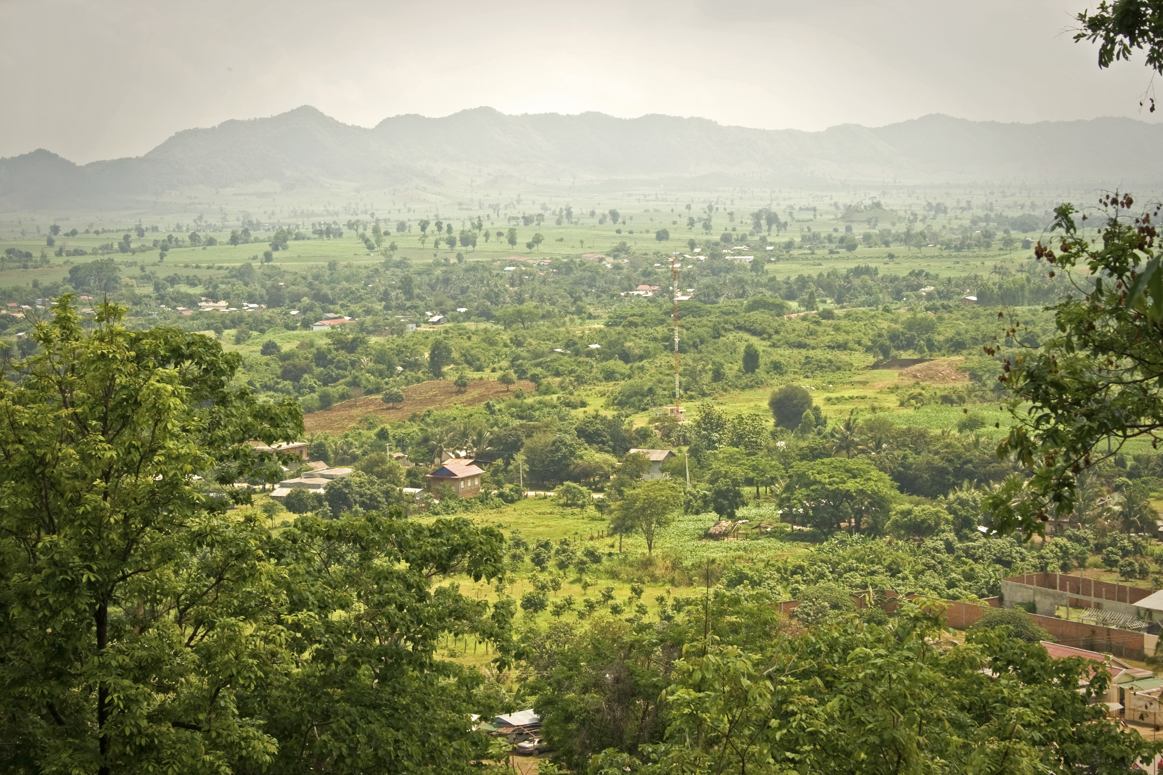 View from Phnom Yat, Pailin.